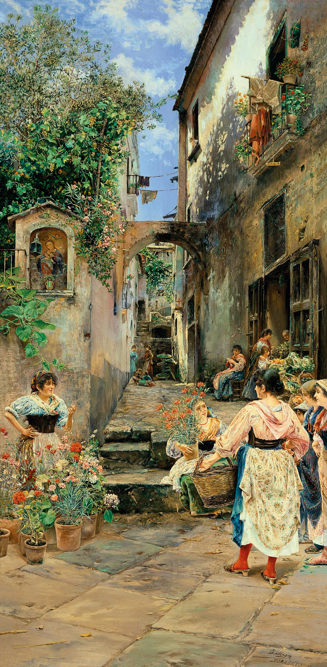 Rumours. Oil on panel. 55.3 x 27.2 cm, Inv. CTB.1997.17 Carmen Thyssen Museum Native nameMuseo Carmen Thyssen MálagaLocationMálaga, (Spain)Coordinates36° 43′ 17″ N, 4° 25′ 22″ W Established2011Website control VIAF: 230371067 LCCN: no2012034269 GND: 16335044-9 SUDOC: 163469776 BNF: 16968889h WorldCat